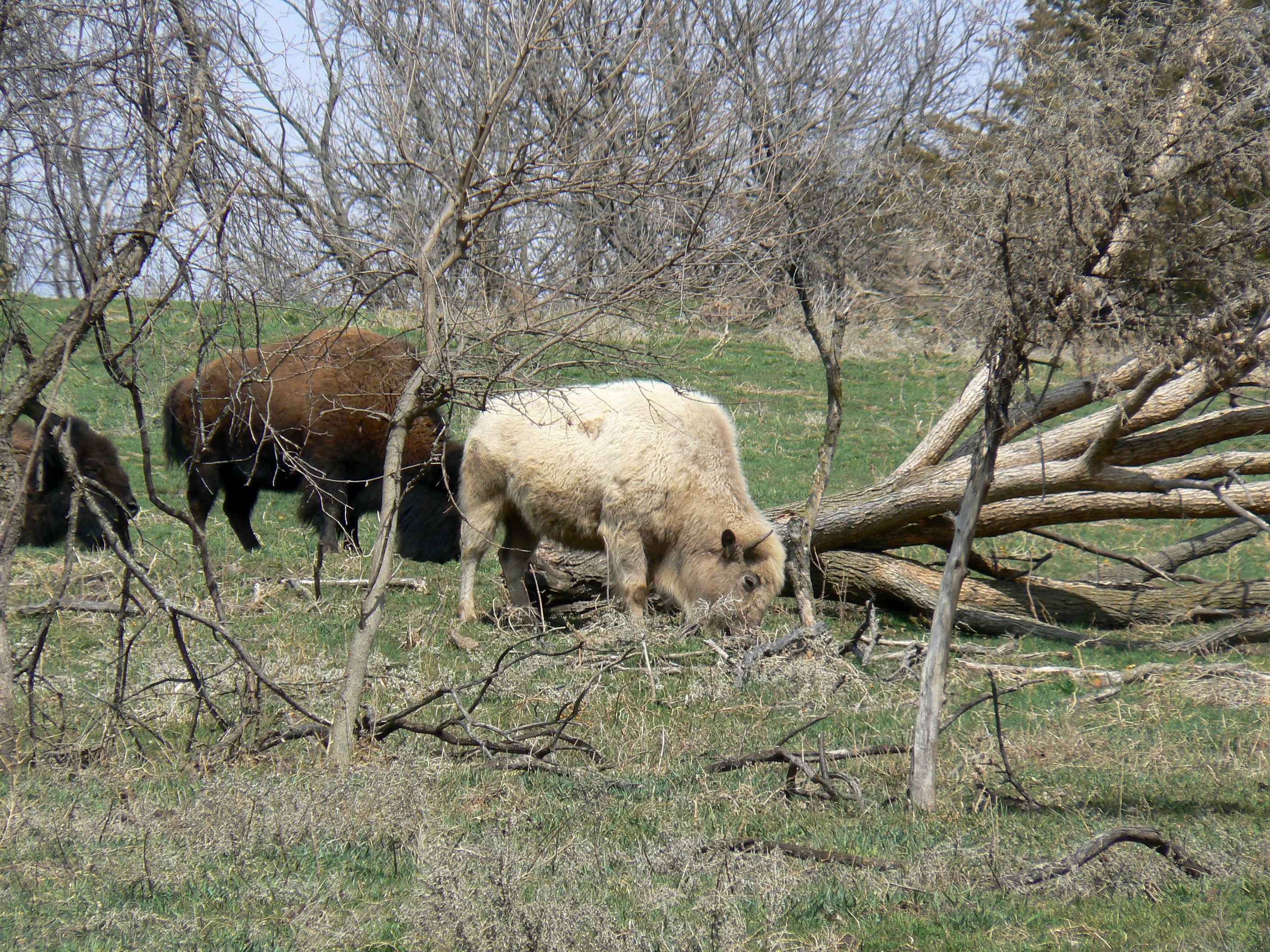 (Bison bison), Blonde bison at Lee G. Simmons Conservation Park and Safari in Ashland, Nebraska}